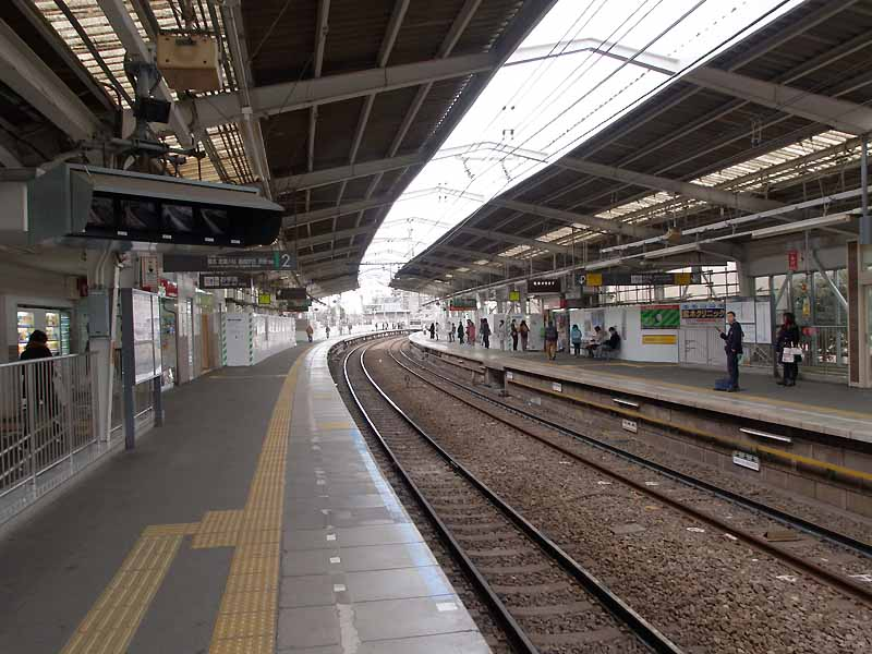 Tokyo Kyuko Railway (Tokyu) Myorenji station: A View of platform from south end.